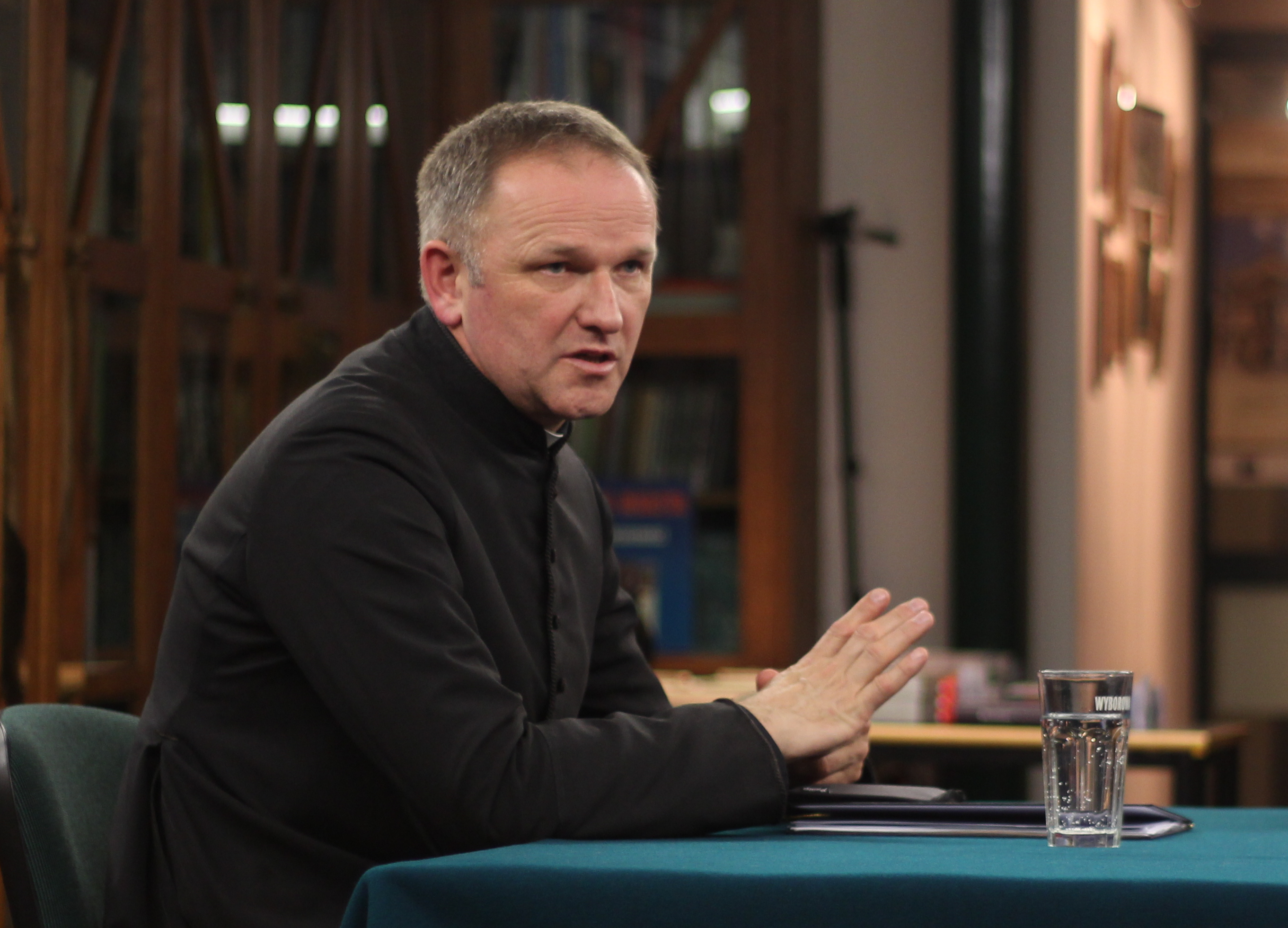 Wojciech Lemański, Polish priest, during his lecture at Centre of Jewish Culture at Raby Beer Meisels Street in Kraków.